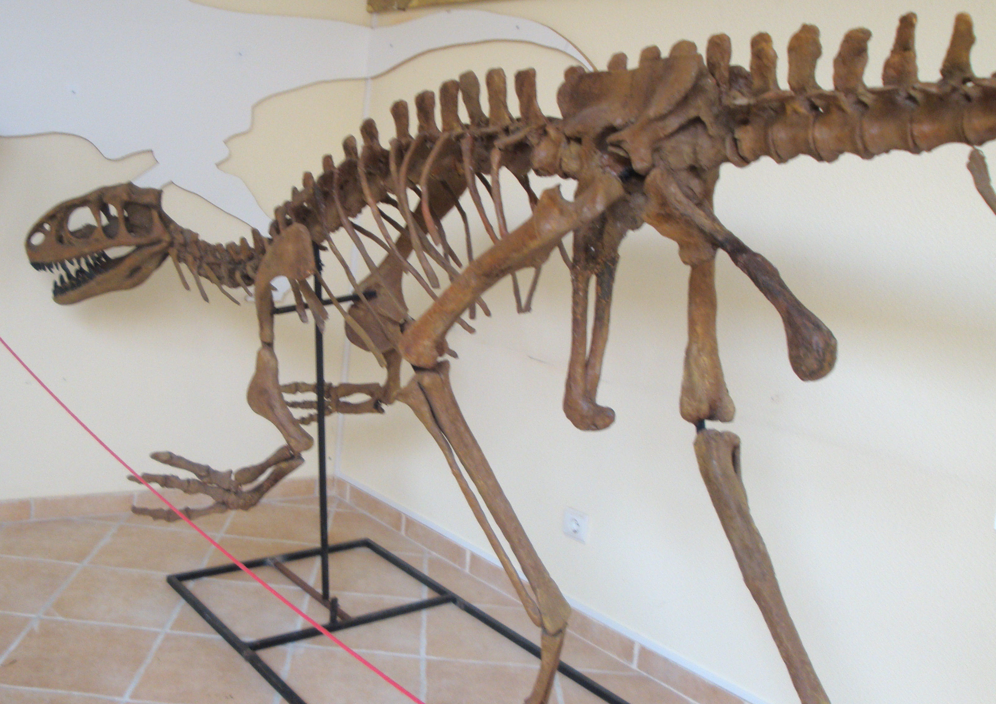 Lourinhanosaurus antunesi in Museum of Lourinhã